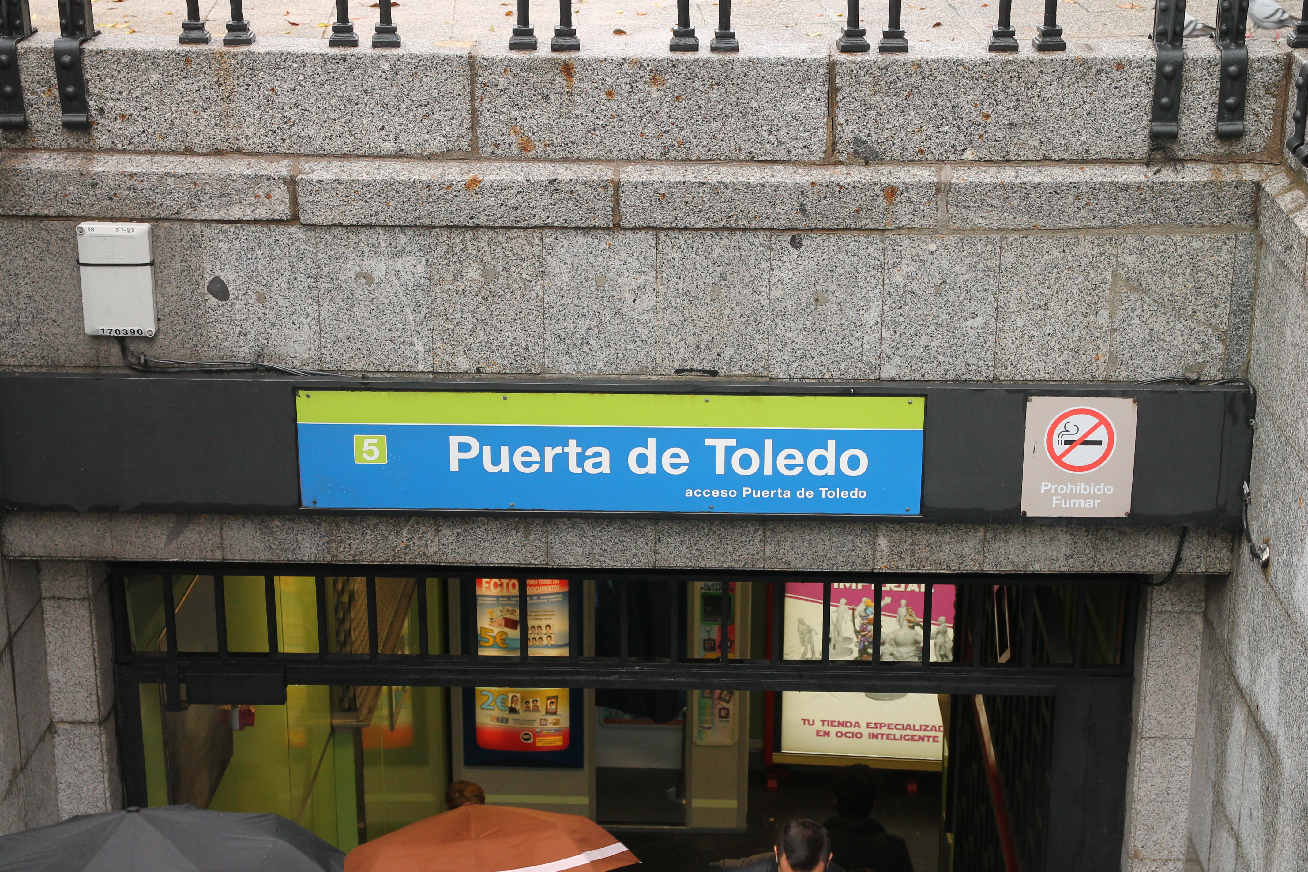 Estación de Puerta de Toledo